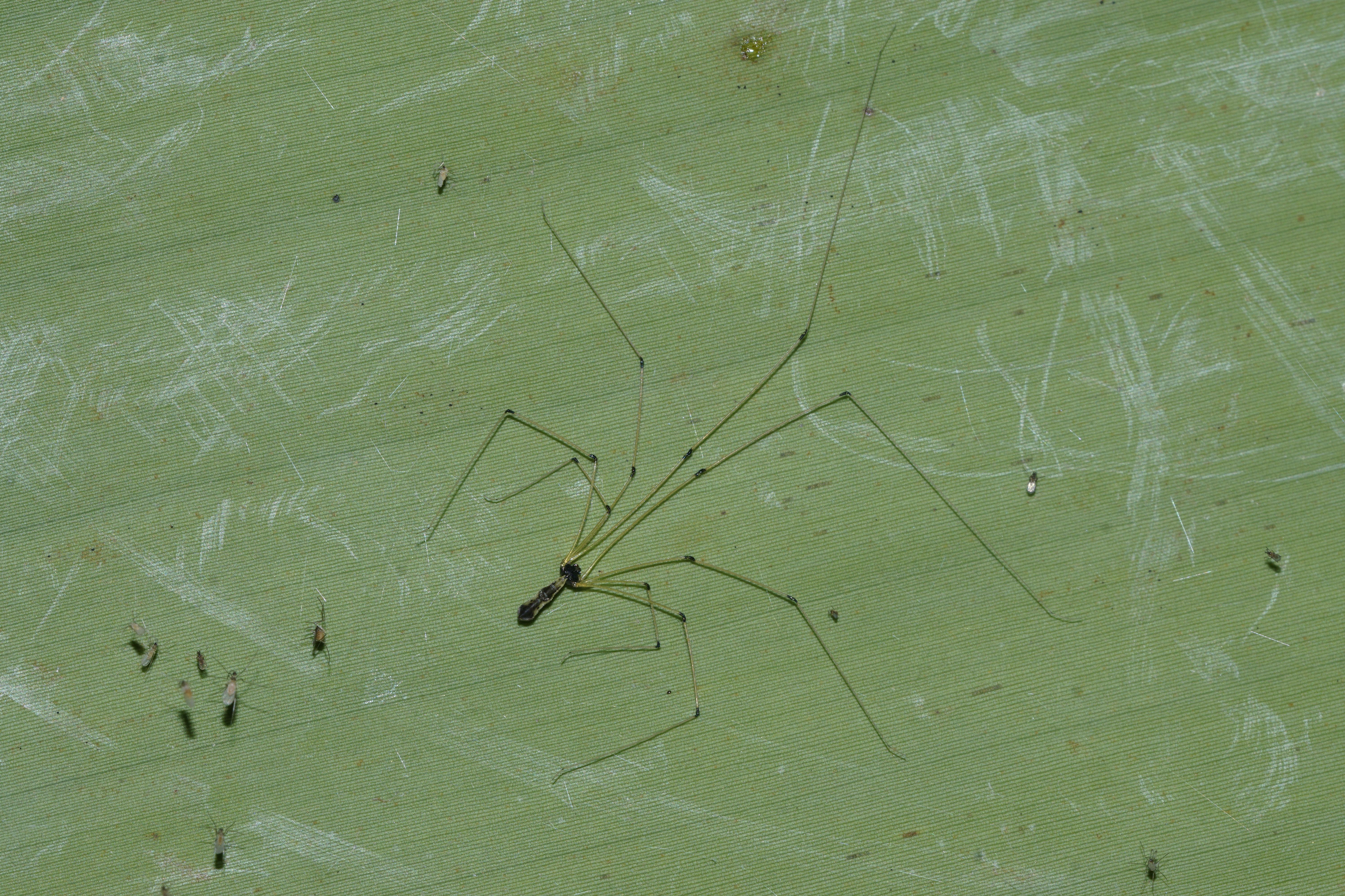 Insect